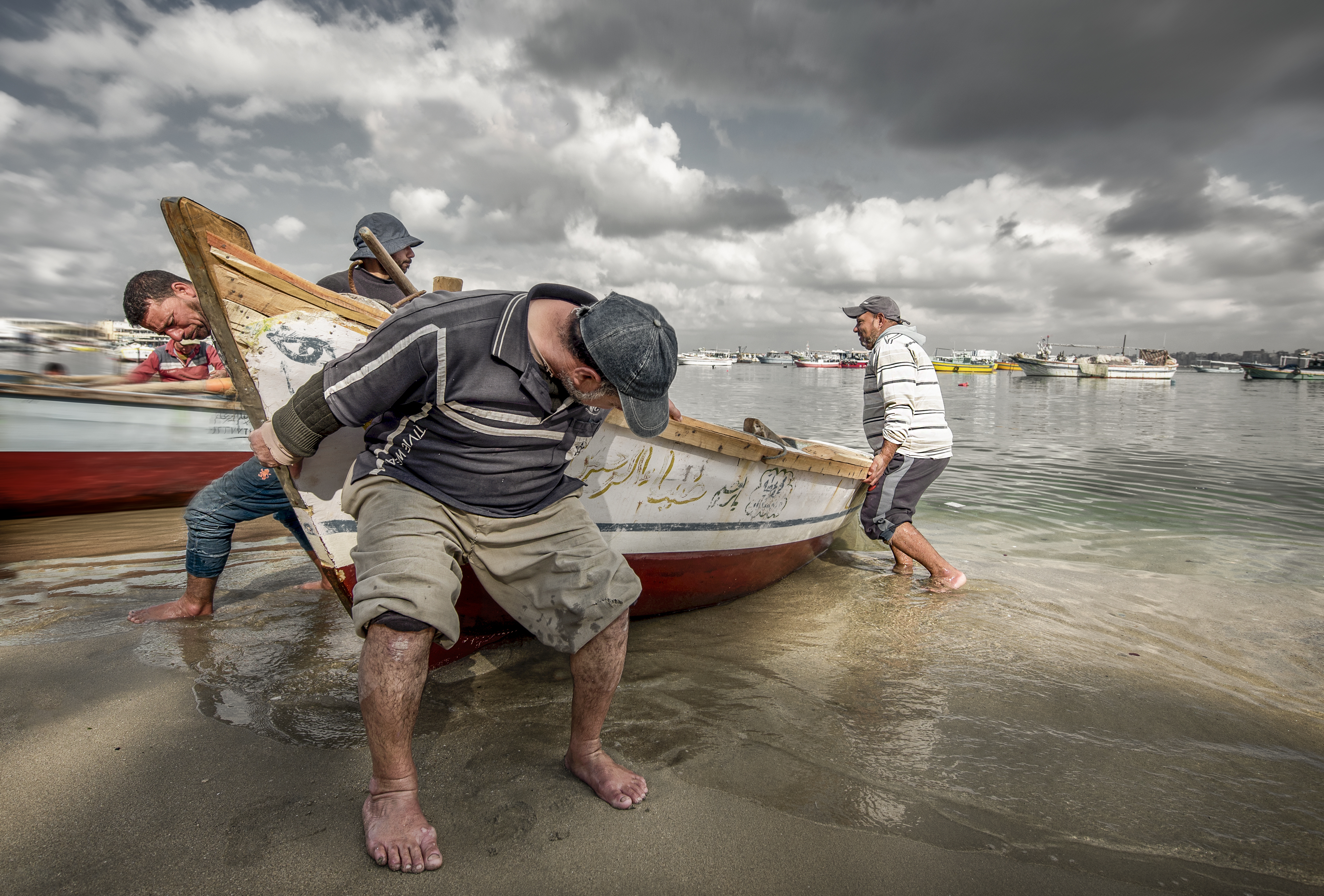 This is an image with the theme "Africa on the Move or Transport" from: Egypt